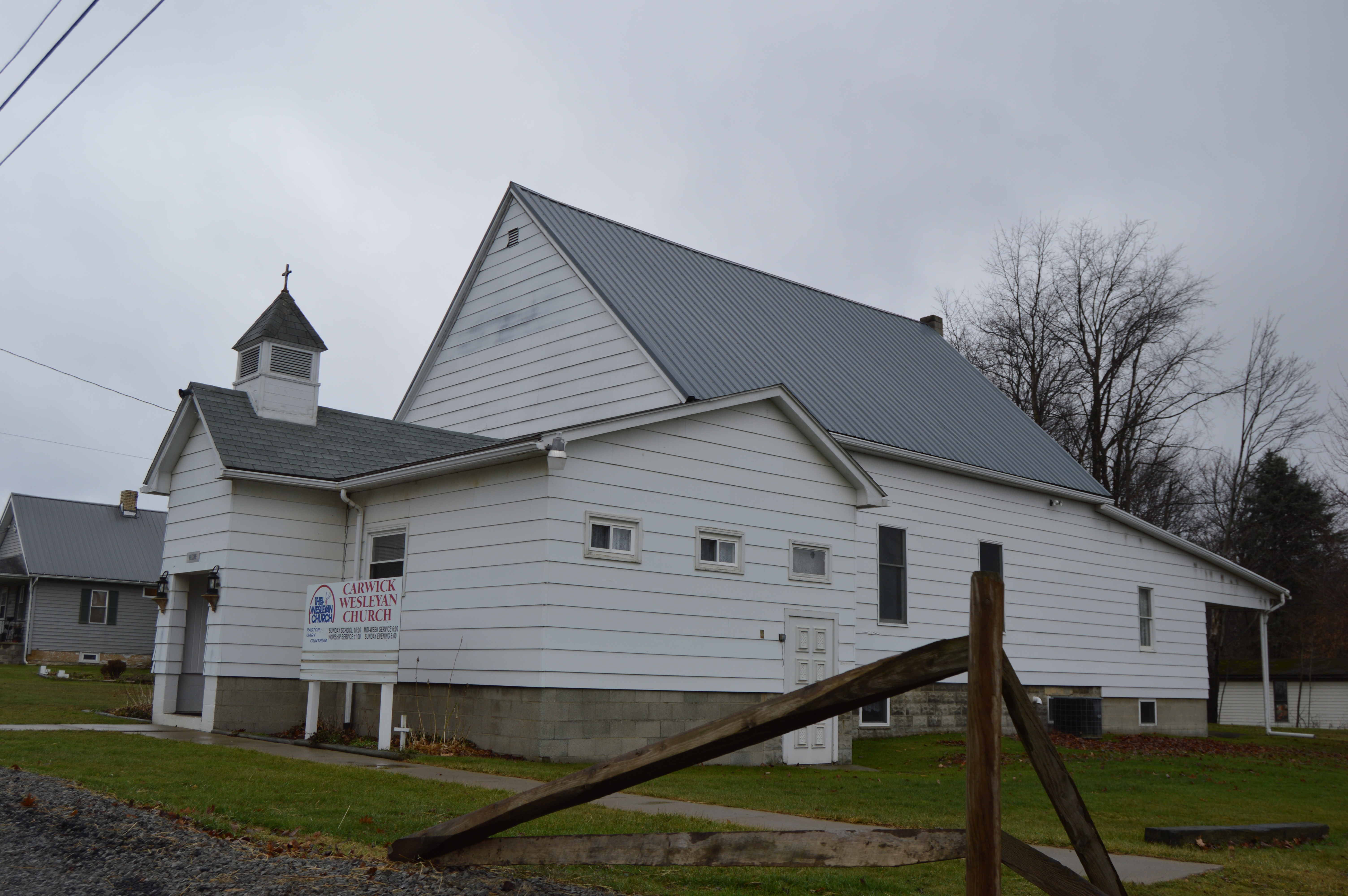 Front and northern side of Carwick Wesleyan Church, located at 163 Carwick Road just north of Rimersburg in Toby Township, Clarion County, Pennsylvania, United States.